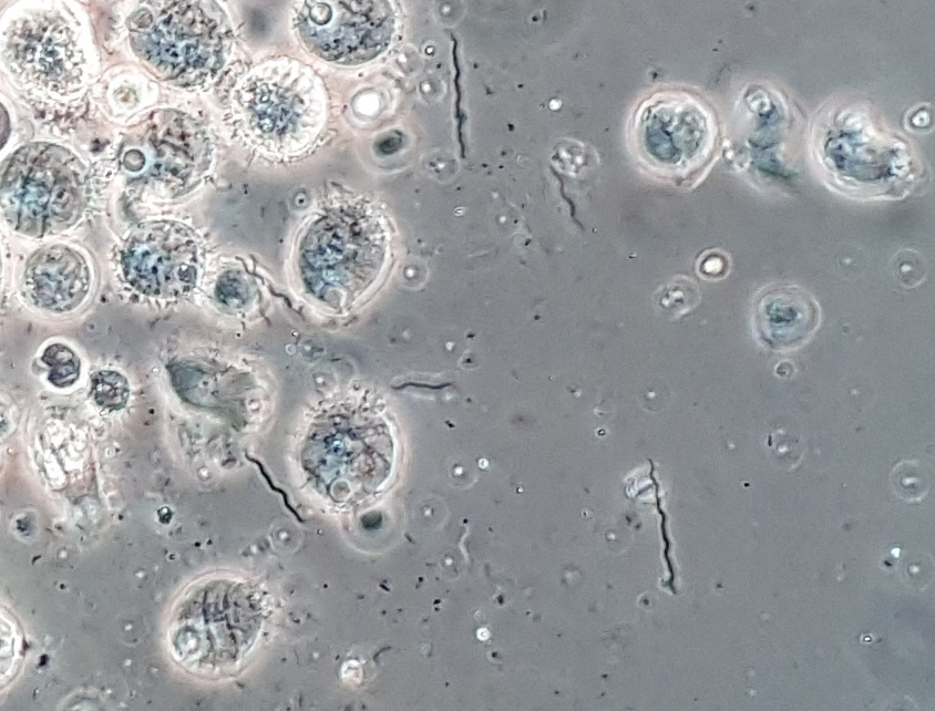 Spirochaetes and flagellates viewed through a microscope with phase contrast.